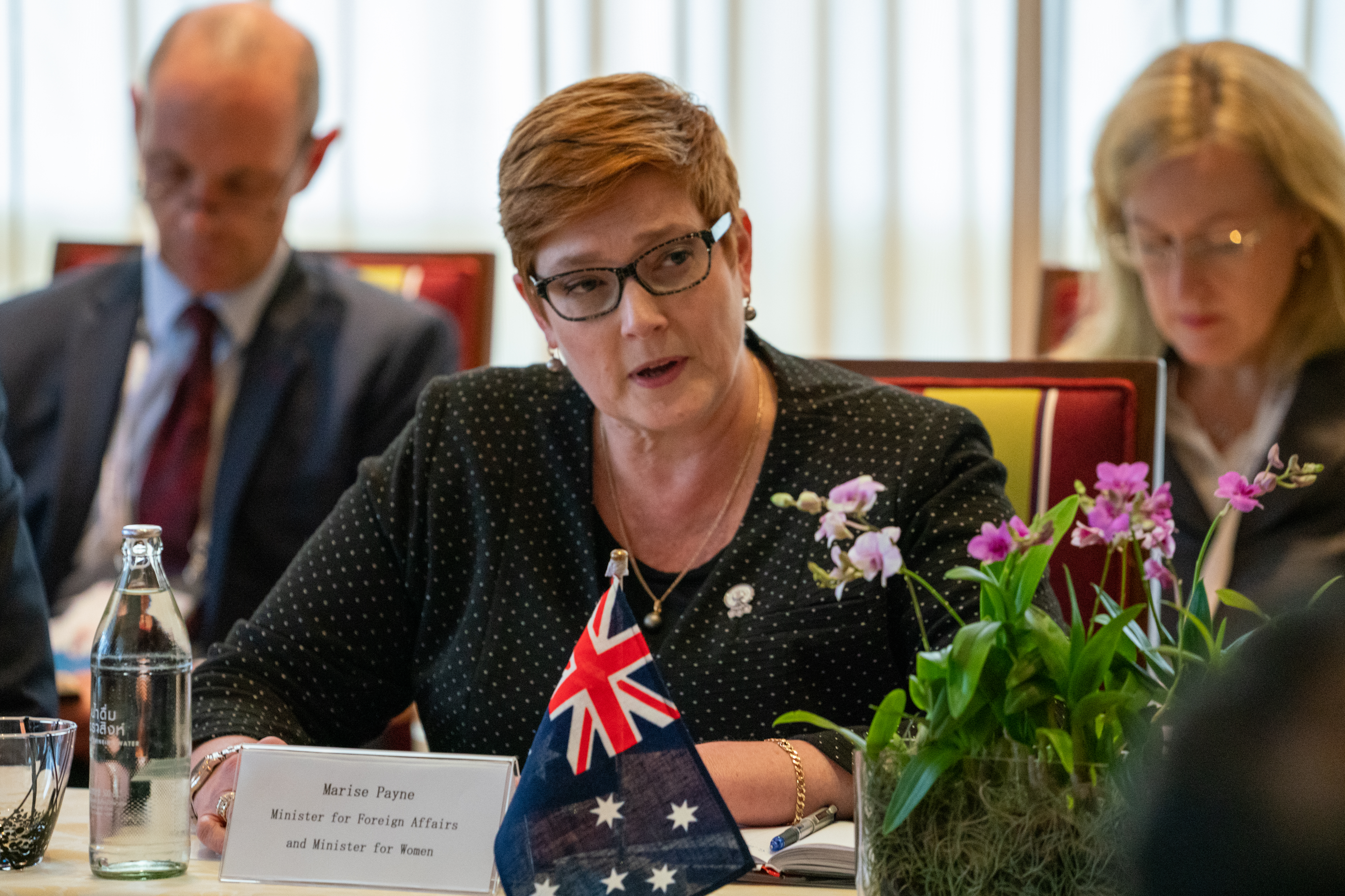 U.S. Secretary of State Michael R. Pompeo participates in the U.S.-Australia-Japan Trilateral Strategic Dialogue with Australian Foreign Minister Marise Payne and Japanese Foreign Minister Taro Kono in Bangkok, Thailand on August 1, 2019. [State Department photo by Ron Przysucha/ Public Domain]